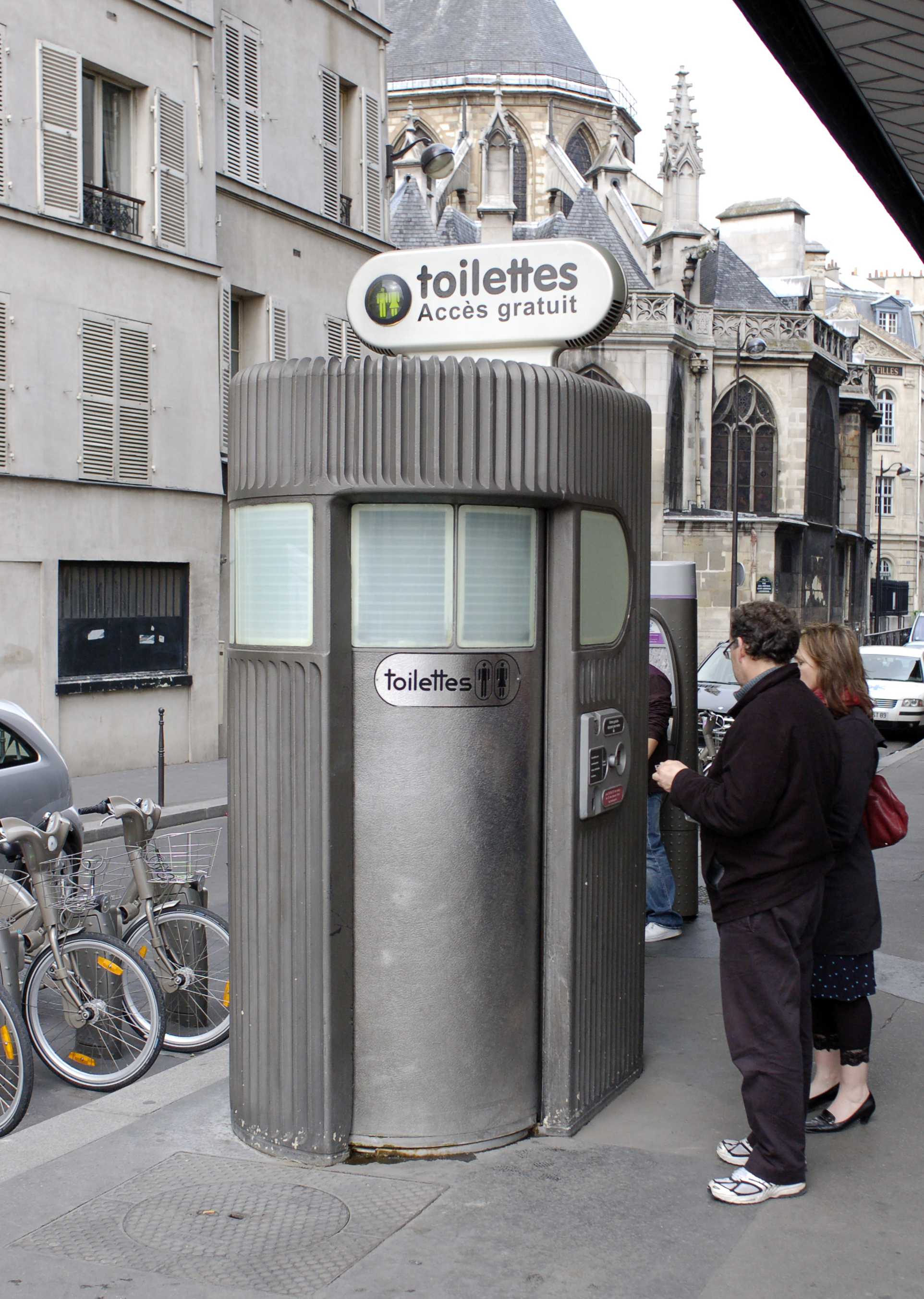 A pay toilet on the street, located in Paris, France.